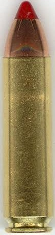 Hornady cartridge with 250 grn FTX bullet